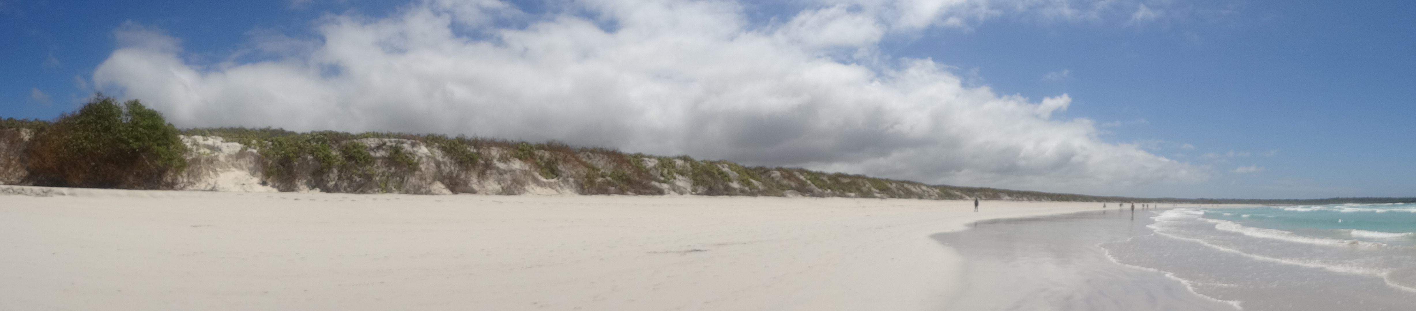 Panoramic, Pacific Ocean and the amazing beach at Tortuga Bay Santa Cruz Galápagos Photography by David Adam Kess